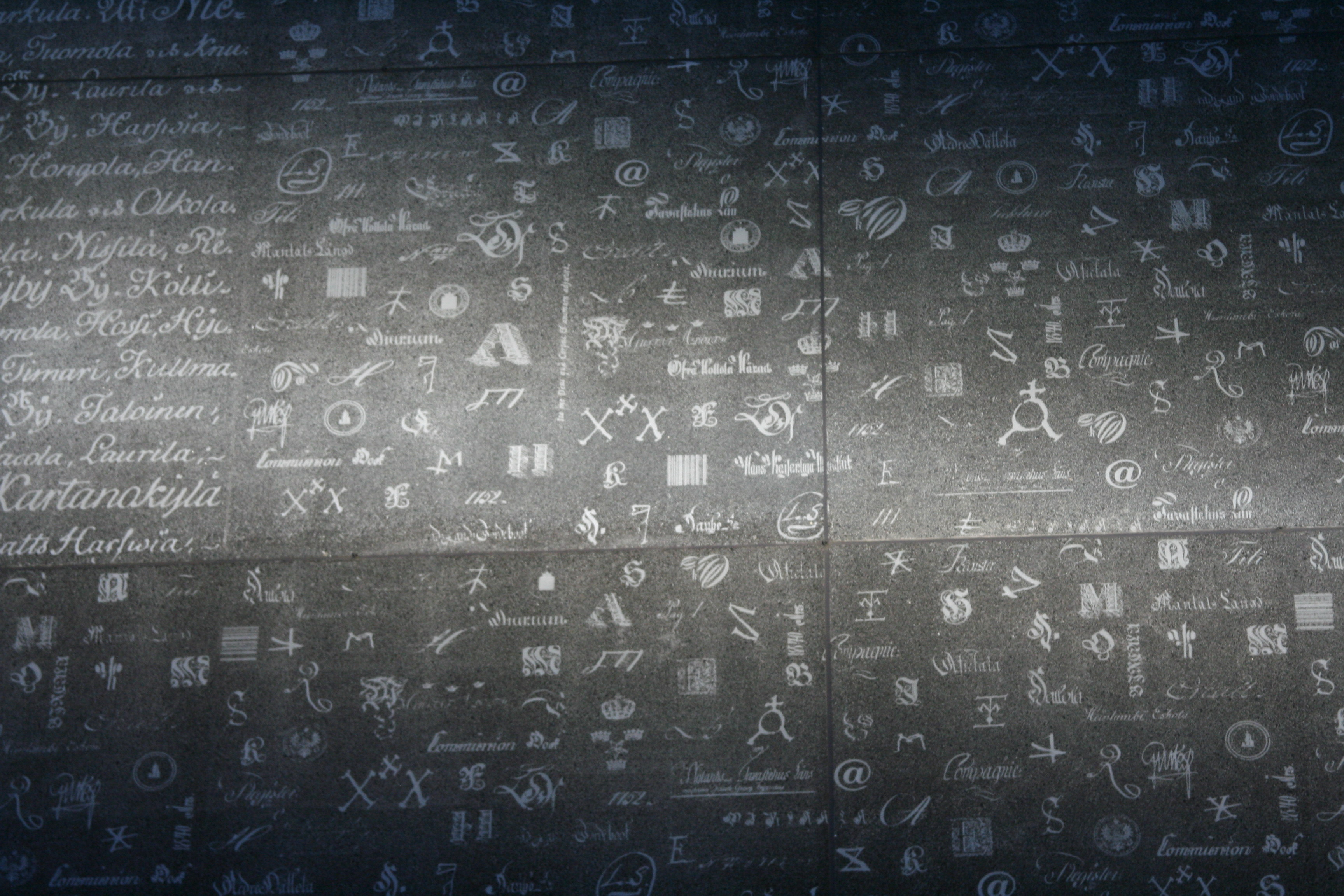 Building of Provincial Archives of Hämeenlinna, Hämeenlinna, Finland. Graphic concrete in main elevations. Completed in 2009. Concrete structure of 2009 -award. Architects Mikko Heikkinen, Markku Komonen and Markku Puumala from Arkkitehtuuritoimisto Heikkinen-Komonen Oy. Graphic design of precast concrete wall panels by Aimo Katajamäki, Aimonomia Oy.